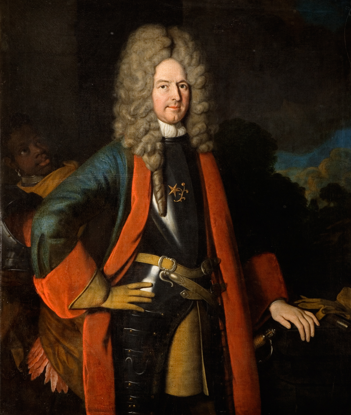 Portrait of English army officer Luke Lillingston (1653–1715)